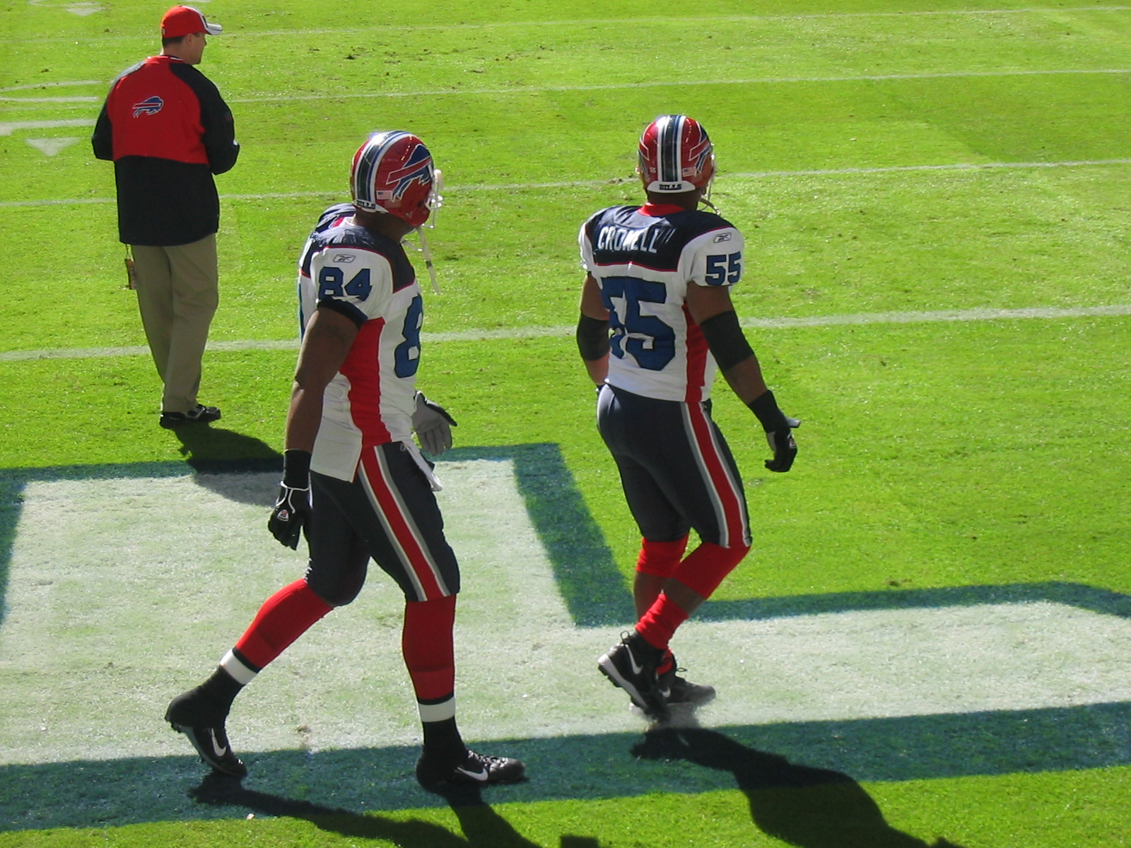 Robert Royal (left) and Angelo Crowell (right) walking in the endzone.